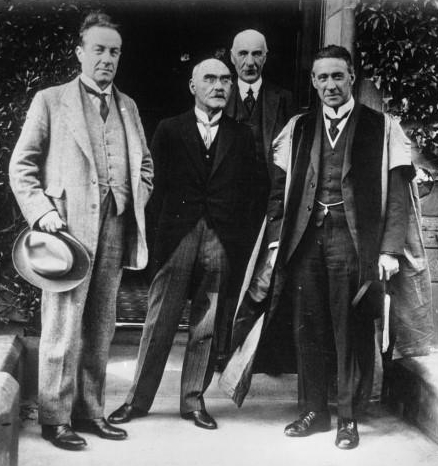 Rudyard Kipling (centre) as rector of the University of St Andrews in 1923.